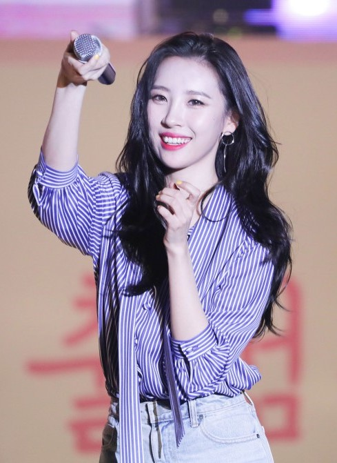 Lee Sun-mi perfoming at Keimyung University on March 28, 2018